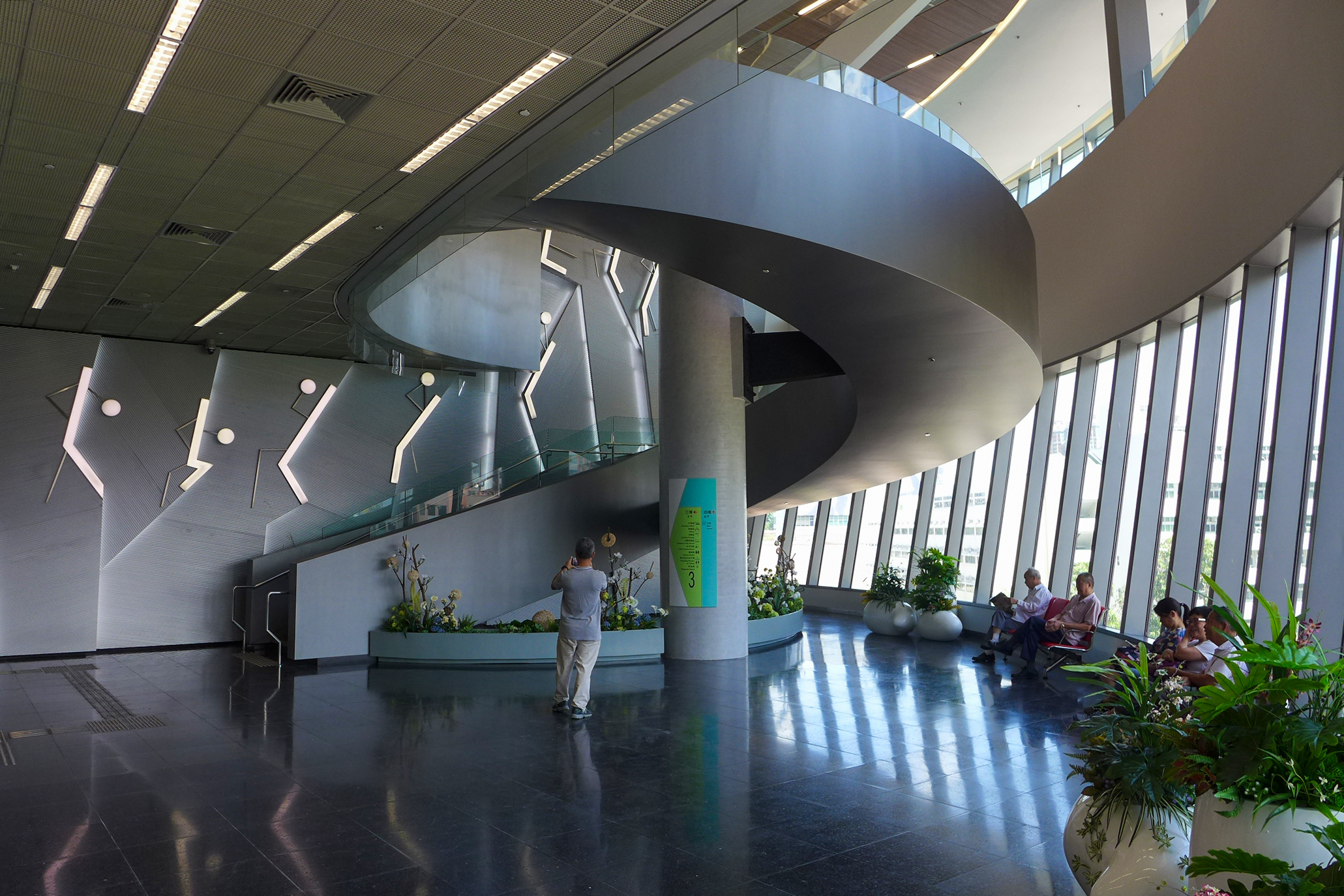 Yuen Long Leisure and Cultural Building